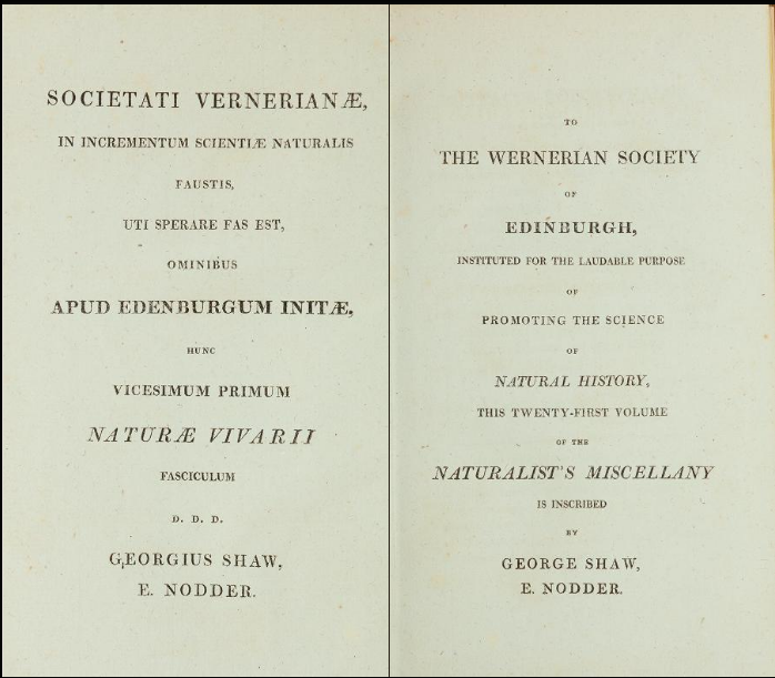 Title Page E.Nodder Naturalist's miscellany v 21 The year of the publication is not given in the volume, but presumably v 21 was published prior to v24 (1813)